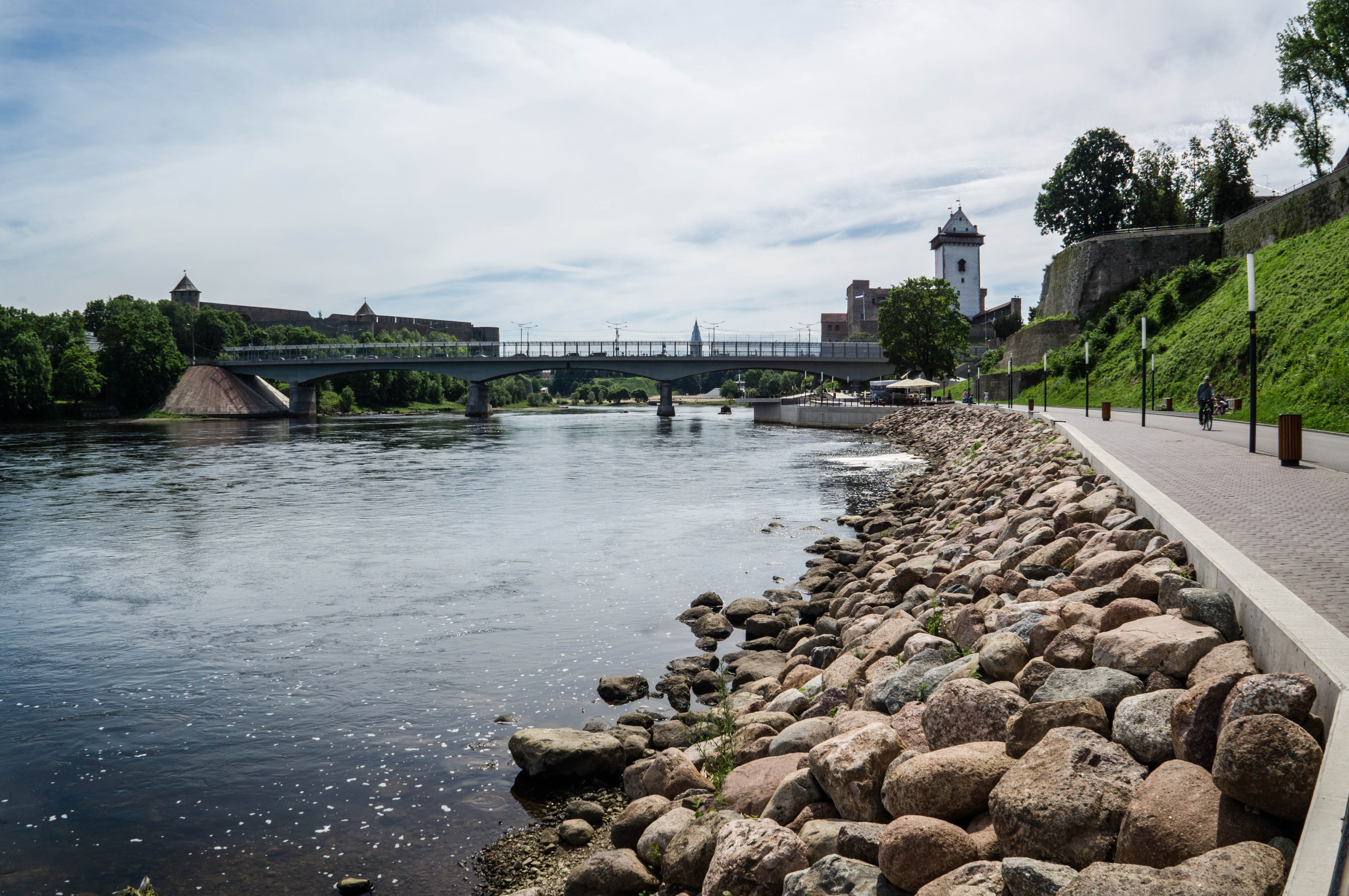 Narva embankment and Friendship bridge